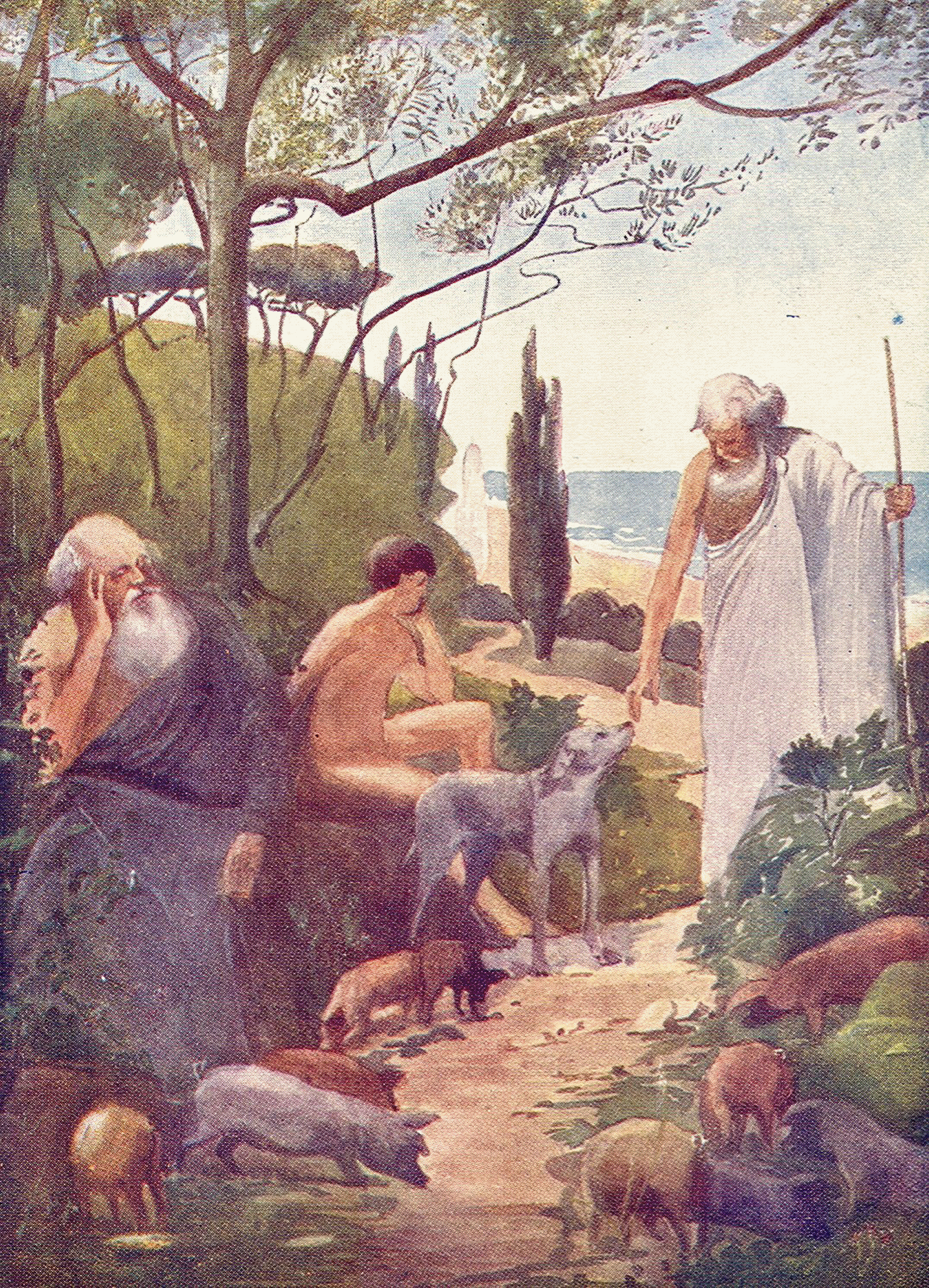 Book I of the Story of the World series. Focuses on the civilizations surrounding the Mediterranean Sea from the time of Abraham to the birth of Christ. Brief histories of the Ancient Israelites, Phoenicians, Egyptians, Scythians, Persians, Greeks, and Romans are given, concluding with the conquest of the entire Mediterranean by Rome. Important myths and legends that preceded recorded history are also related.